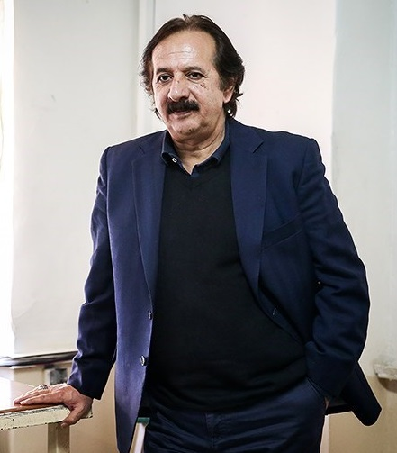 Majid Majidi, Iranian film director